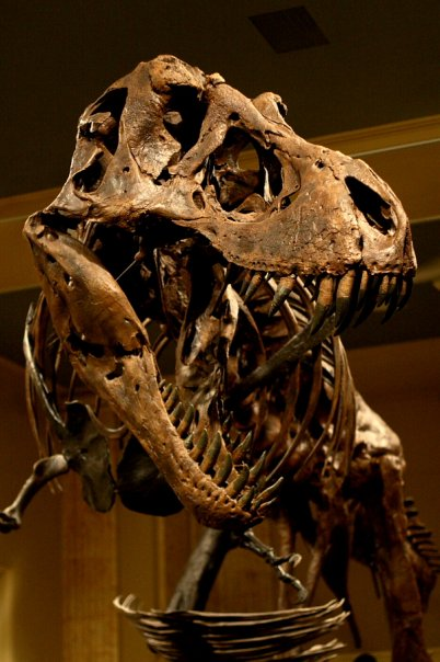 A cast of Stan, the Tyrannosaurus rex, at the entrance of the Dinosaur Discovery Museum. Dinosaur Discovery Museum